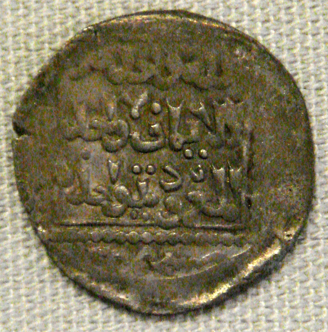 Crusader_coin_Acre_circa_1230